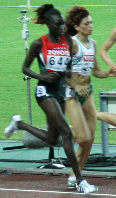 World Athletics Championships 2007 in Osaka - Scene from the women's 1500 metres final: Viola Kibiwot, Daniela Yordanova